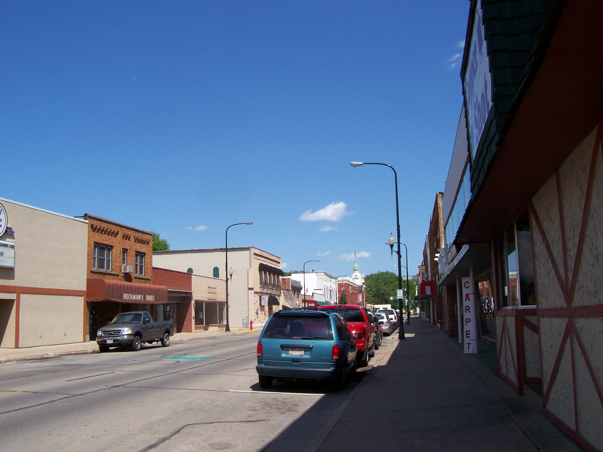 Looking East in downtown New London, Wisconsin, U.S.